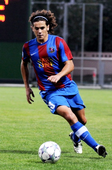 George Florescu